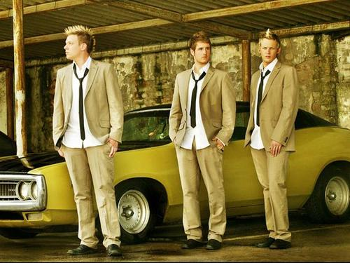 ItaloBrothers, a German italodance group